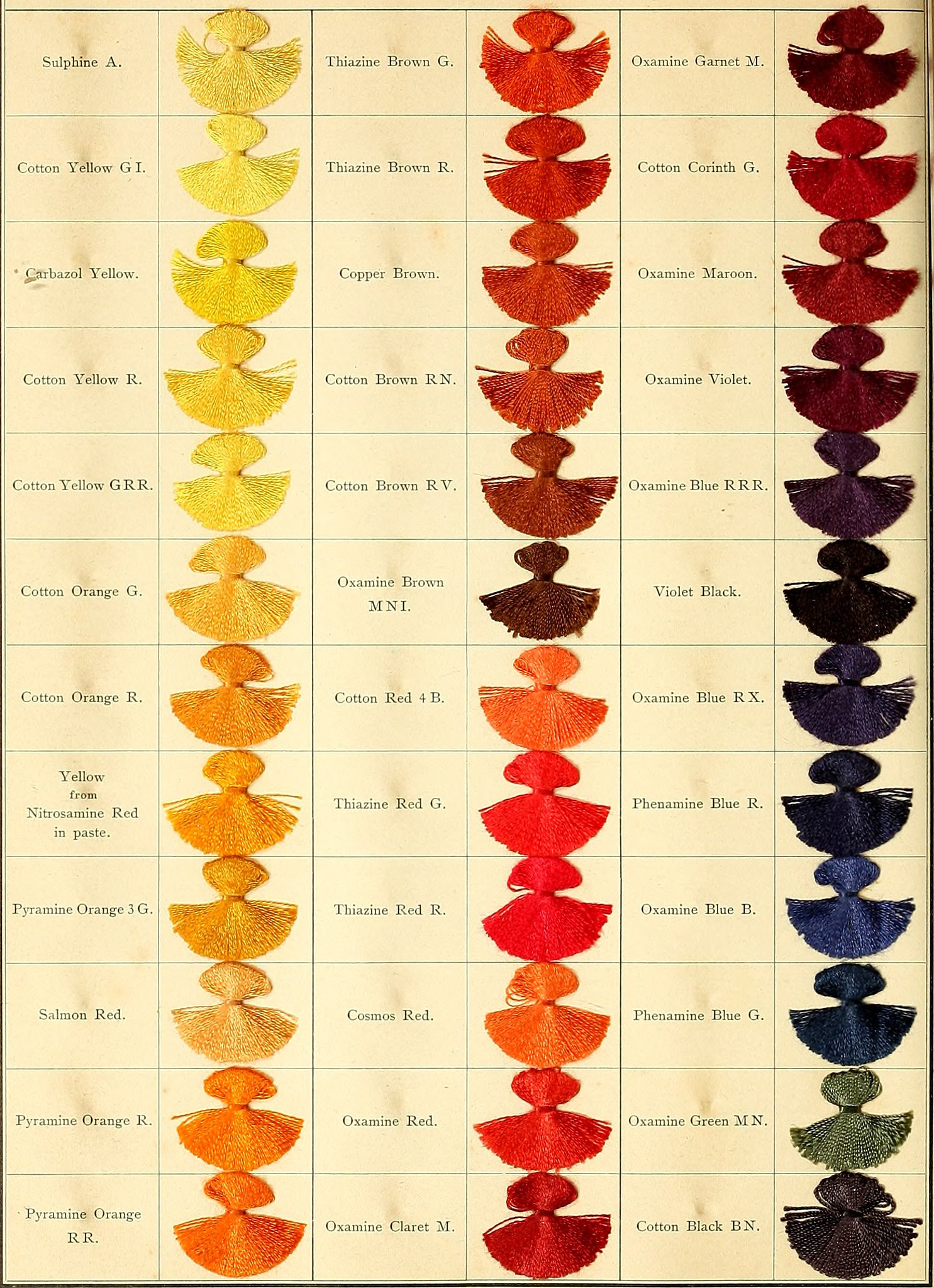 Sample book, Badische Anilin- & Soda-Fabrik, 1901